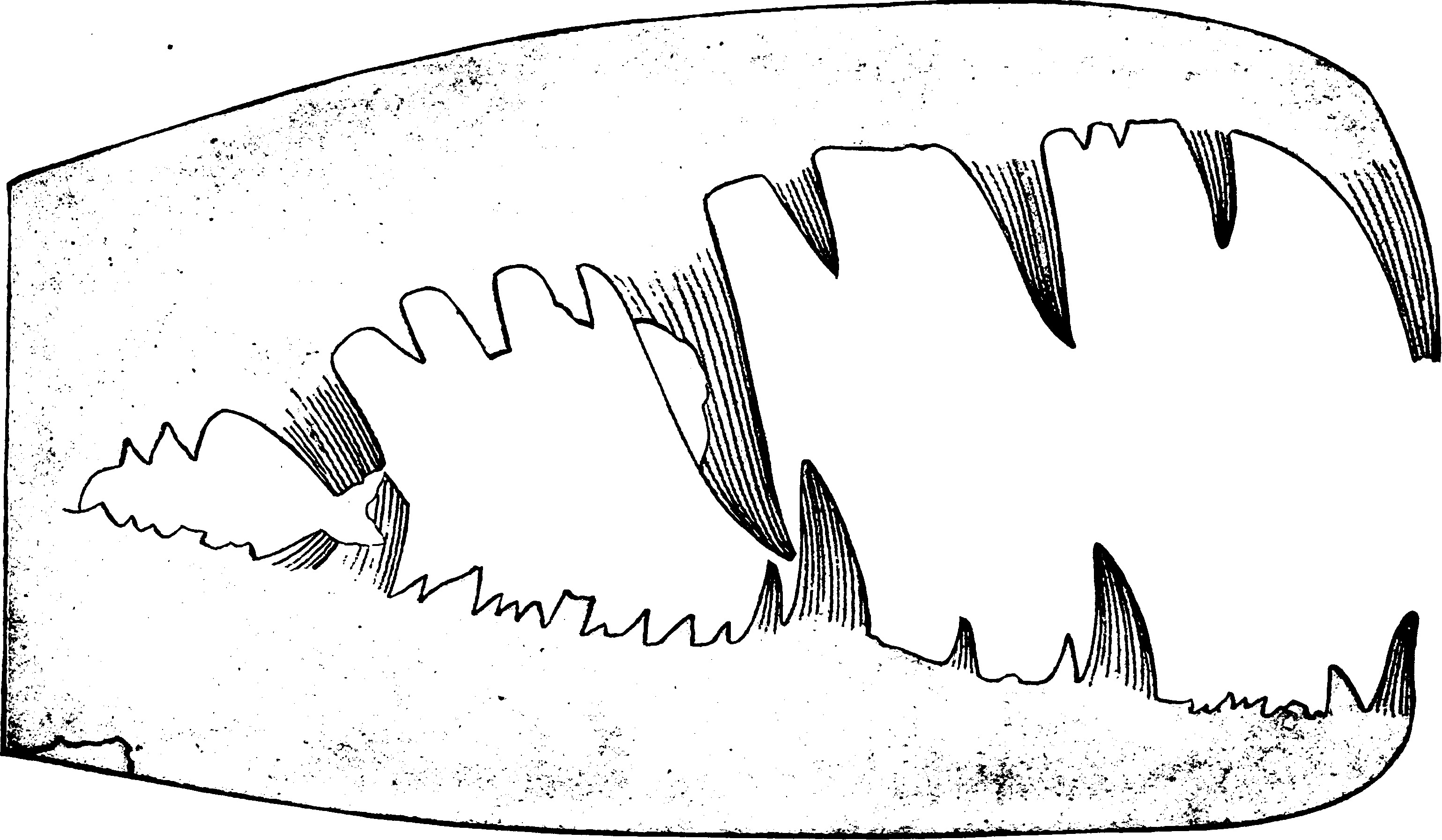 Title: The Eurypterida of New York Year: 1912 (1910s) Authors: Clarke, John Mason, 1857-1925; Ruedemann, Rudolf, 1864-1956 Subjects: Eurypterida; Paleontology Publisher: Albany, New York State Education Department Text Appearing Before Image: THE EURYPTERIDA OF NEW YORK 373 the fact that the European species P. bilobus, P.anglicus and P. barrandei, which possess similar rounded free rami and have afforded the entire chehcerae, also demonstrate that the fixed ramus is correspondingly formed, and that these characters of the chelicerae appear even in younger individuals. We insert here a sketch of the chelicera of P. barrandei, whose free ramus possesses the greatest similarity to that of our type, in order to show the probable form of the entire cheli- cera of P . c o b b i . Text Appearing After Image: Figure 79 Pterygotus barrandei Semper, here introduced for comparison. Natural size. (From Seeman; The second suggestion, above advanced, that P . c o b b i may be only a variety, is also refuted by the evidence from the European material, which demonstrates that the chelicerae are very good indicators of speci- fic distinction. The chelicerae of the P. buf^faloensis-mac- rophthalmus group are almost identical with those of P . b o h e - m i c u s Barrande, while those of the associated P . c o b b i correspond closely to those of P. barrandei Semper, found with bohemicus in the Bohemian Upper Siluric stage.